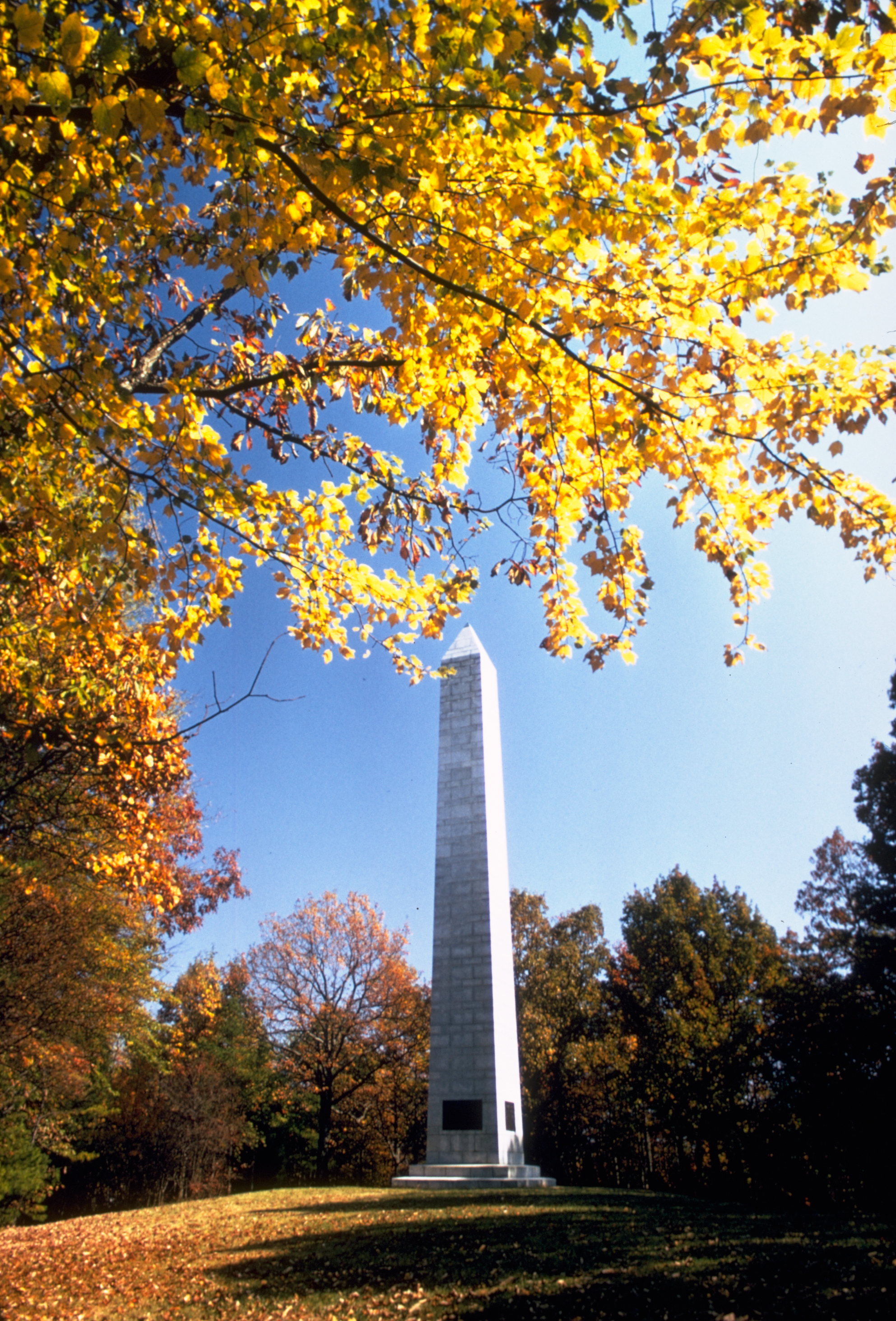 Thomas Jefferson called it "The turn of the tide of success." The battle of Kings Mountain, fought October 7th, 1780, was an important American victory during the Revolutionary War. The battle was the first major patriot victory to occur after the British invasion of Charleston, SC in May 1780. The park preserves the site of this important battle